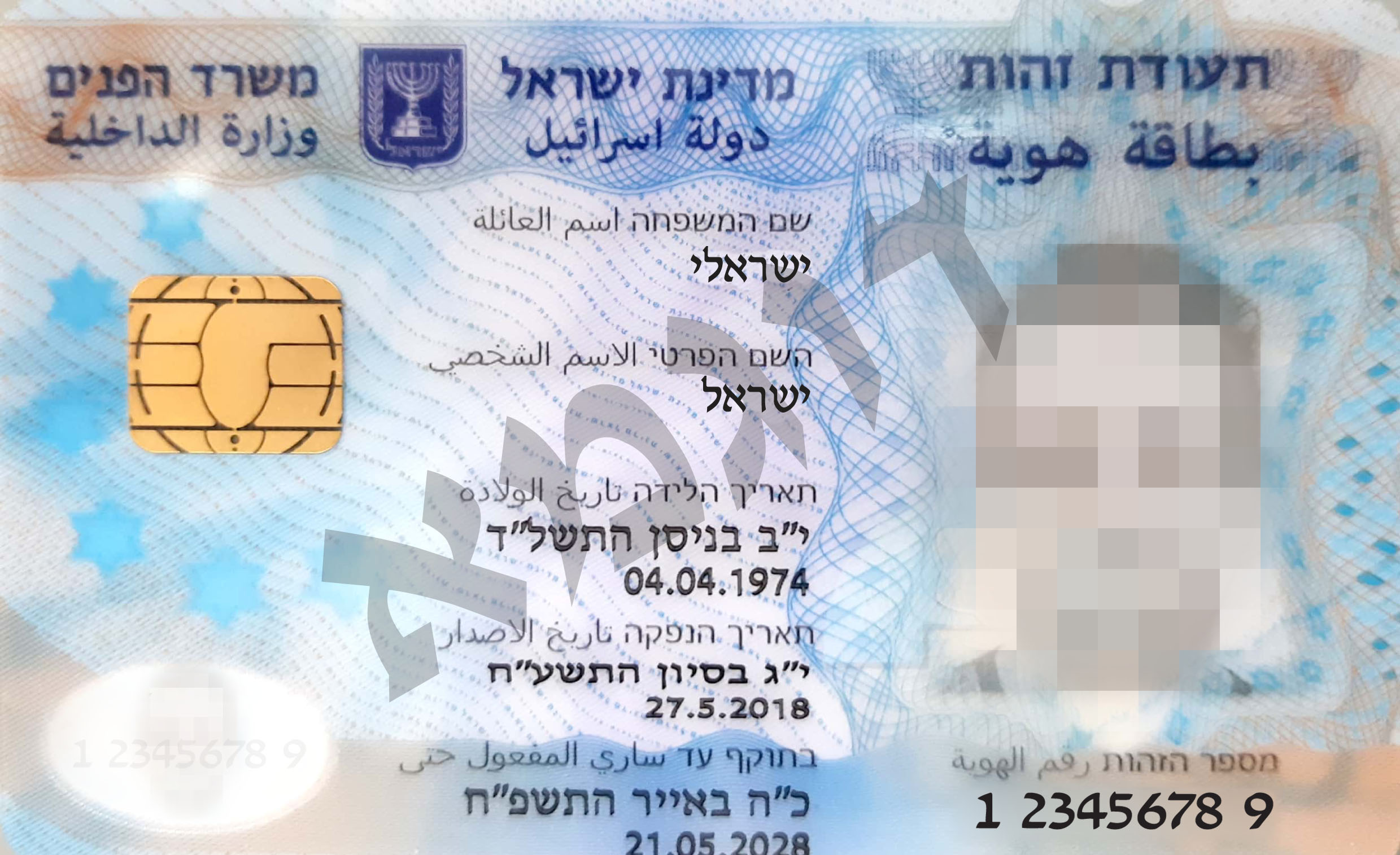 The Example of the Biometric Teudat Zehut, front side